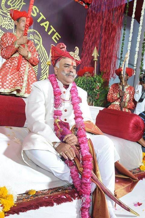 The picture shows HH Maharaja Shrimant Hemendra Singh Rao Pawar of Dhar State seated on the 'Gadi' of the Kshatriya Maratha-Rajput Pawar (Puar/Parmar) Clan. The auspicious coronation of the 12th Maharaja of Dhar State solemnised on 15th January 2015 at the 300 year old 'Rajwada' (Old Palace) of Dhar.